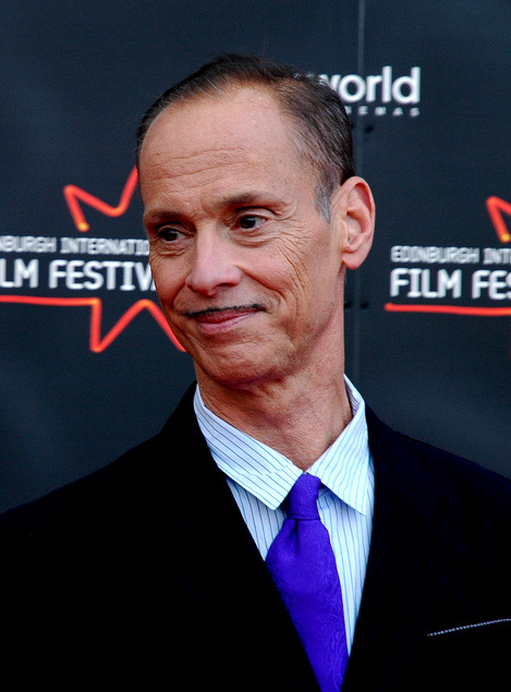 John Waters at the Edinburgh International Film Festival